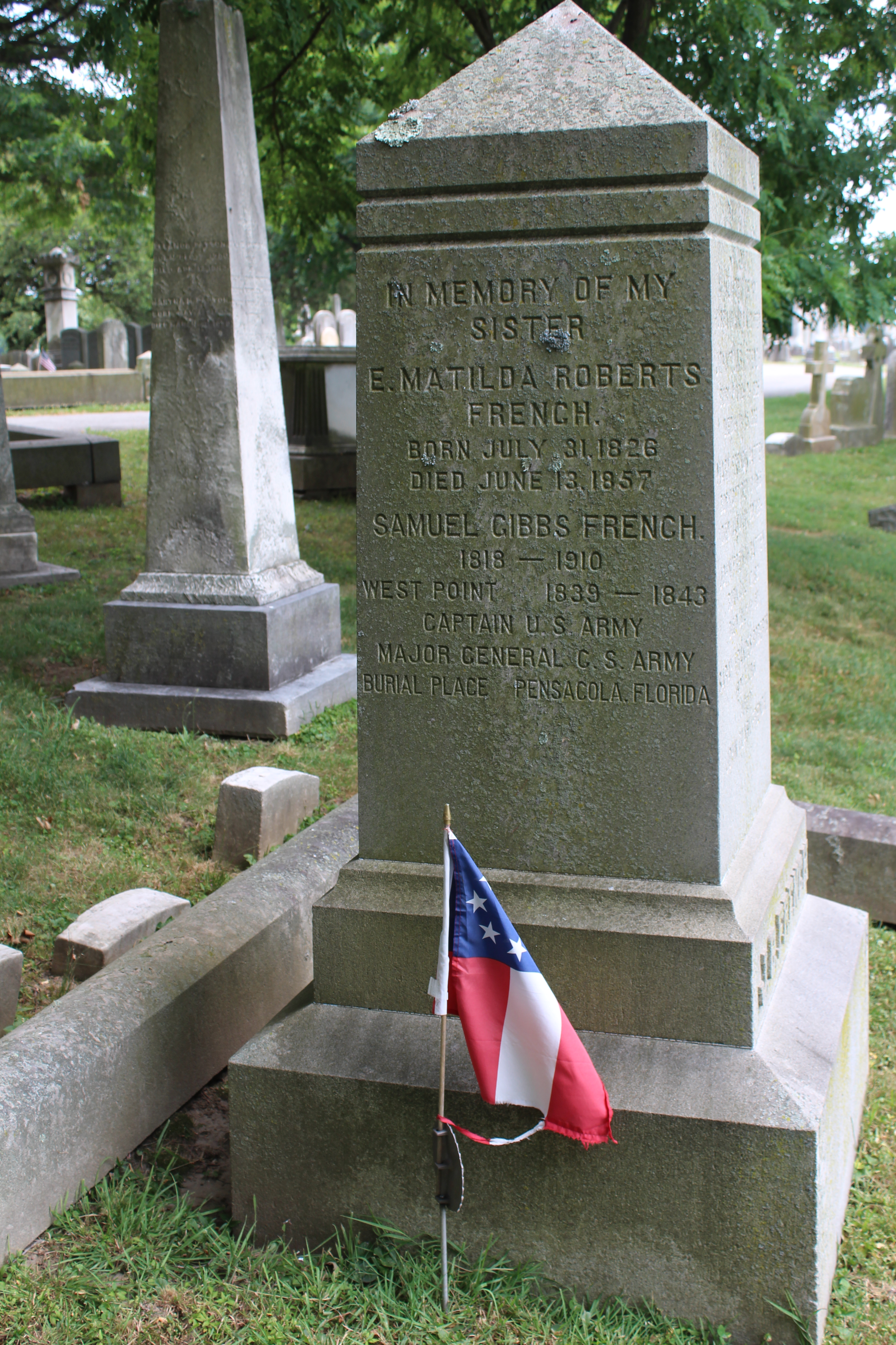 Side view of Samuel Gibbs French Cenotaph in Laurel Hill Cemetery. Photo taken July 2020.